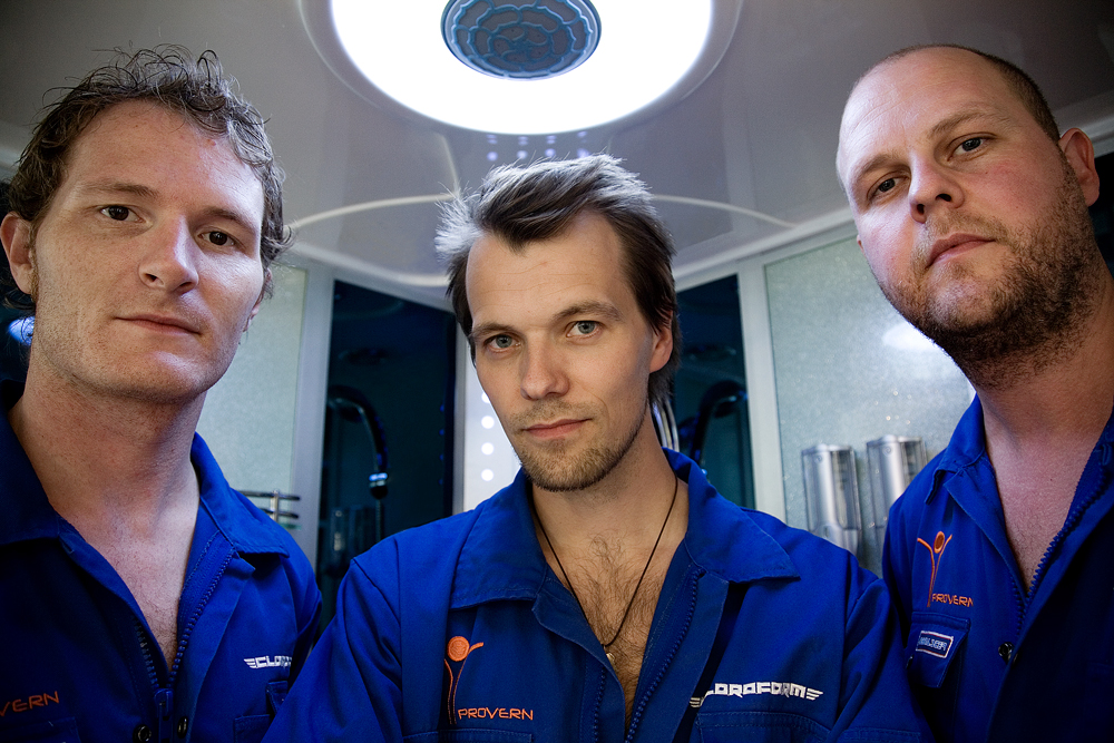 Official Cloroform Pressphoto. Photo by Joachim D. Isaksen